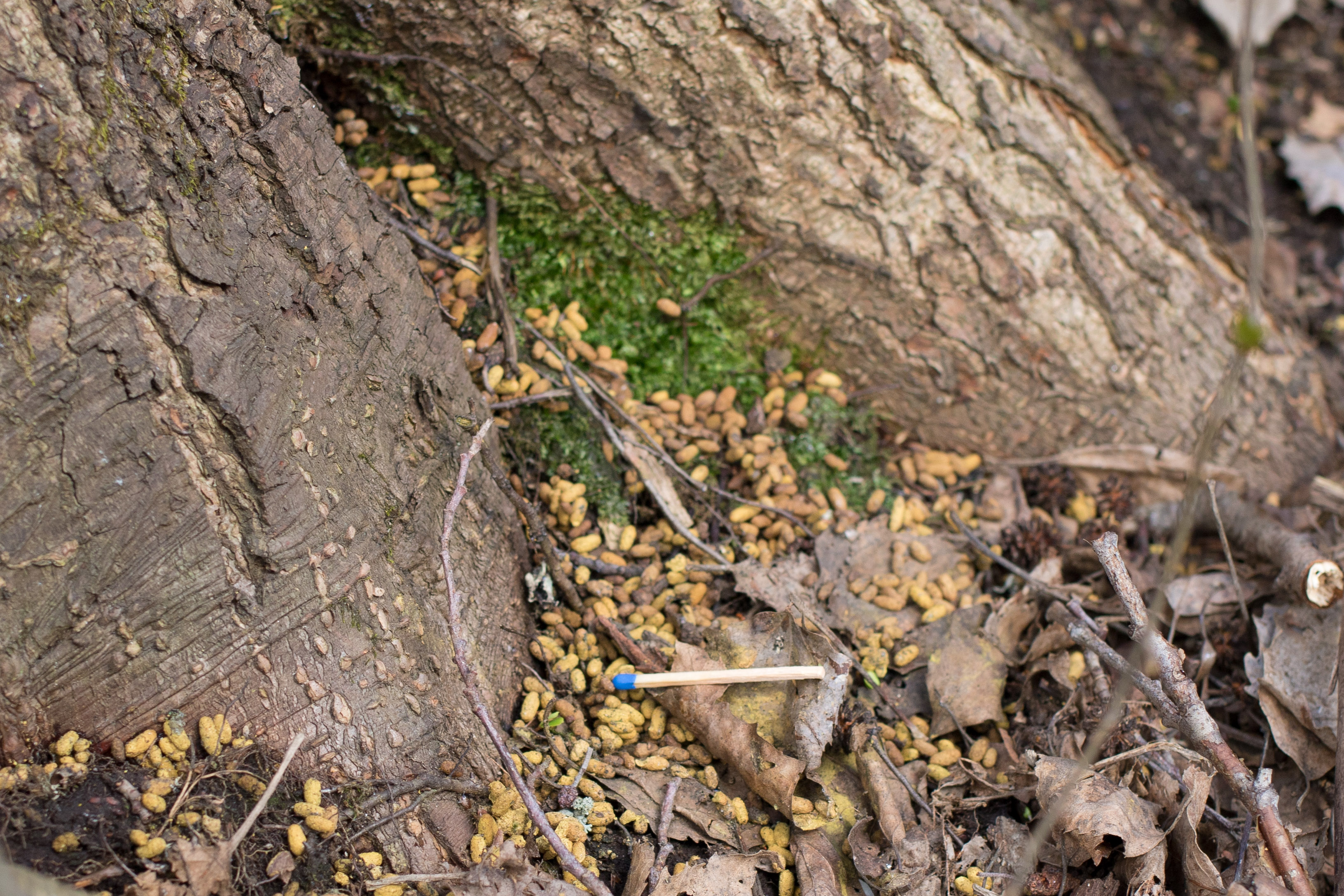 Droppings of siberian flying squirrel (Pteromys volans) underneath a tree. Helsinki, Finland, 2018.